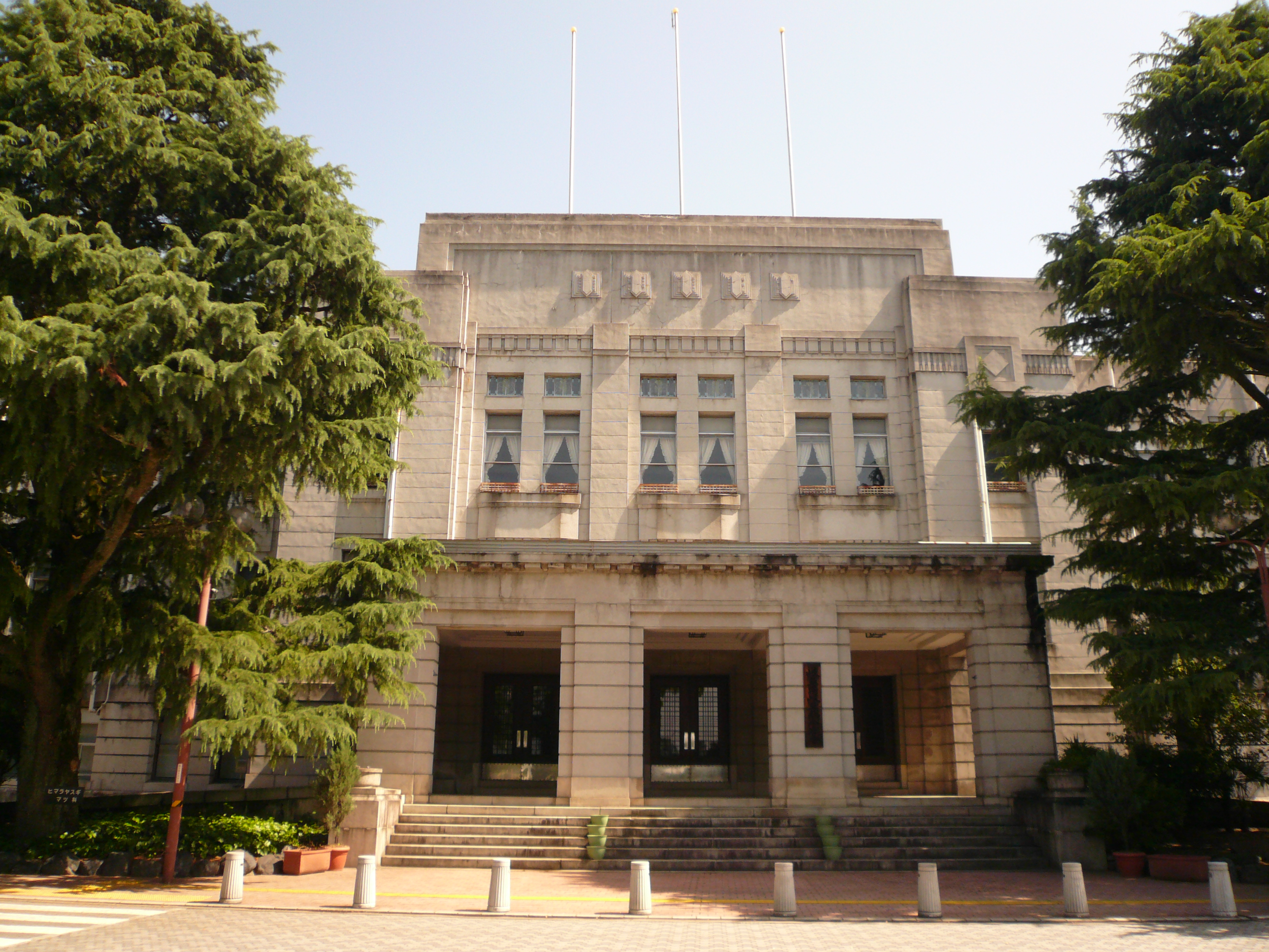 Gifu General Government Office Building of Gifu Prefecture, Gifu, Gifu, Japan